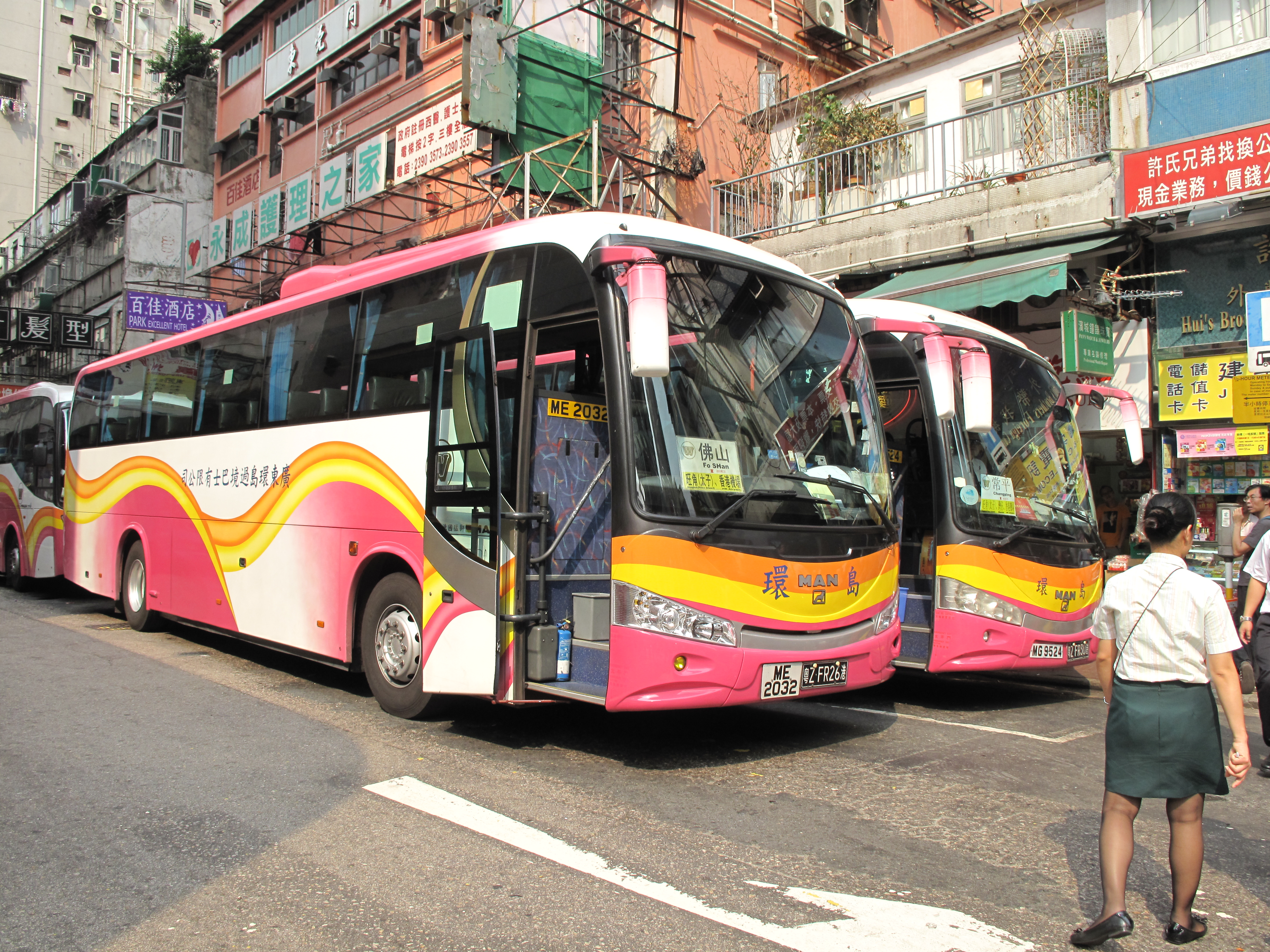 Photo of Trans-Island Chinalink bus at Portland Street